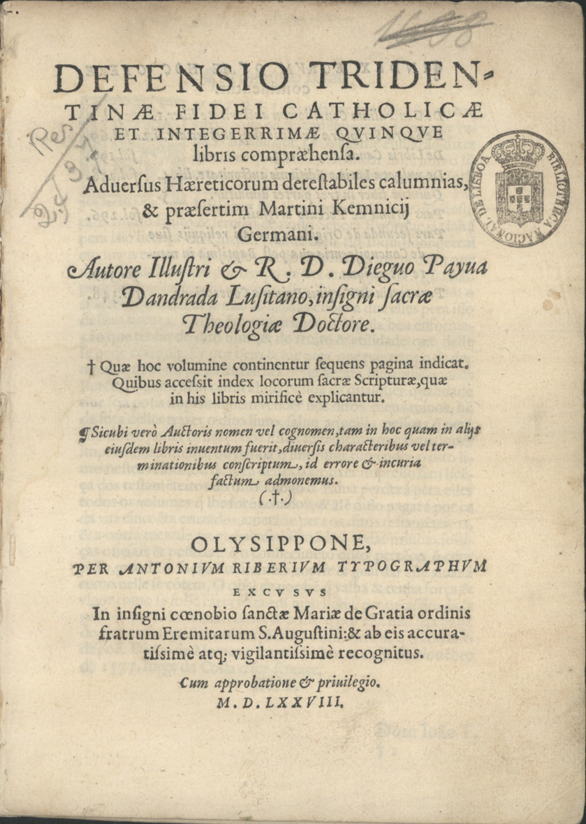 Title page of Diogo de Payva de Andrada's 1578 book Defensio Tridentinæ fidei ("A Defence of the Tridentine Faith"), National Library of Portugal.